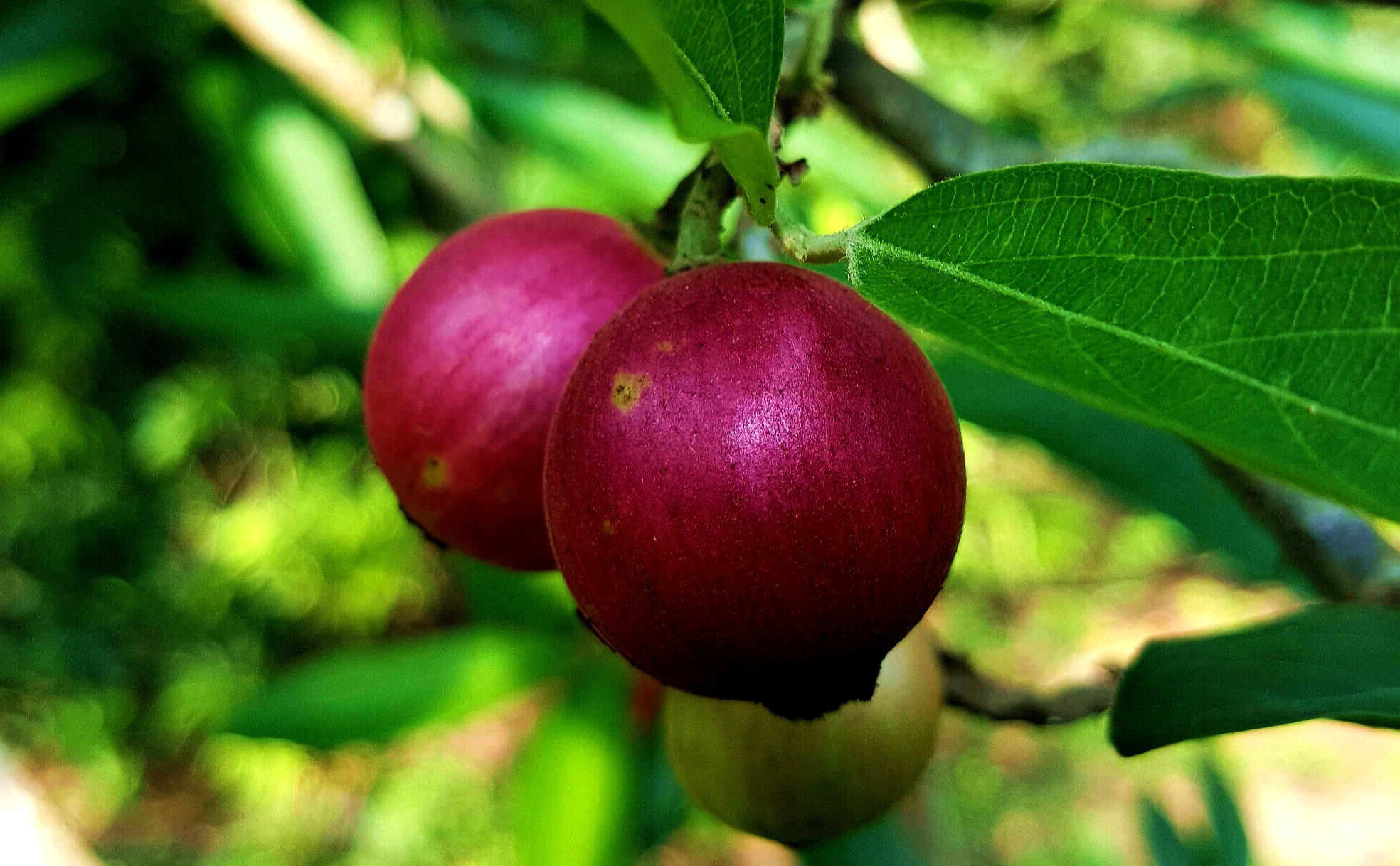 Fruits of Alangium salviifolium plant